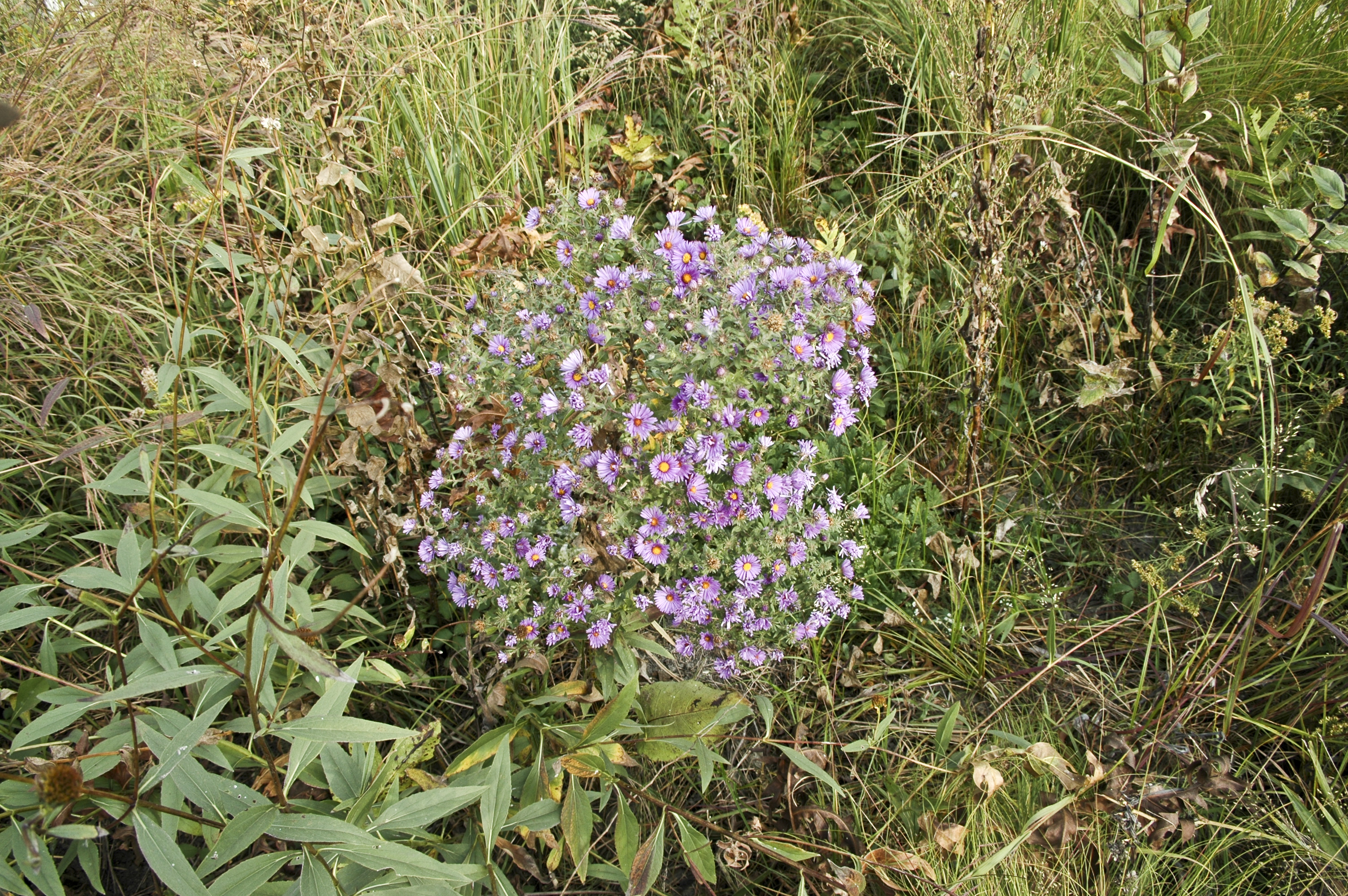 field image of Aster novae-angliae NEW ENGLAND ASTER at the James Woodworth Prairie Preserve - short, lone specimen in full bloom